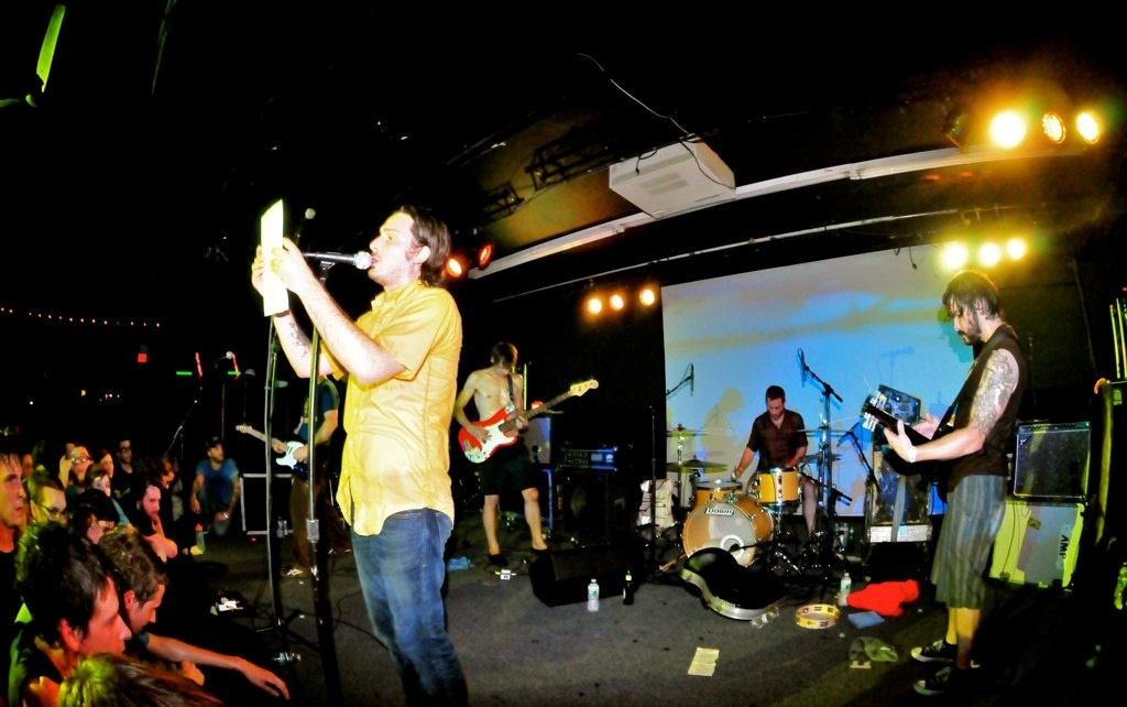 Cap'n Jazz performing at Starlight Ballroom in Philadelphia, Pennsylvania.